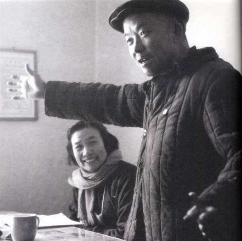 Sun Weishi (left) with Wang Jinxi